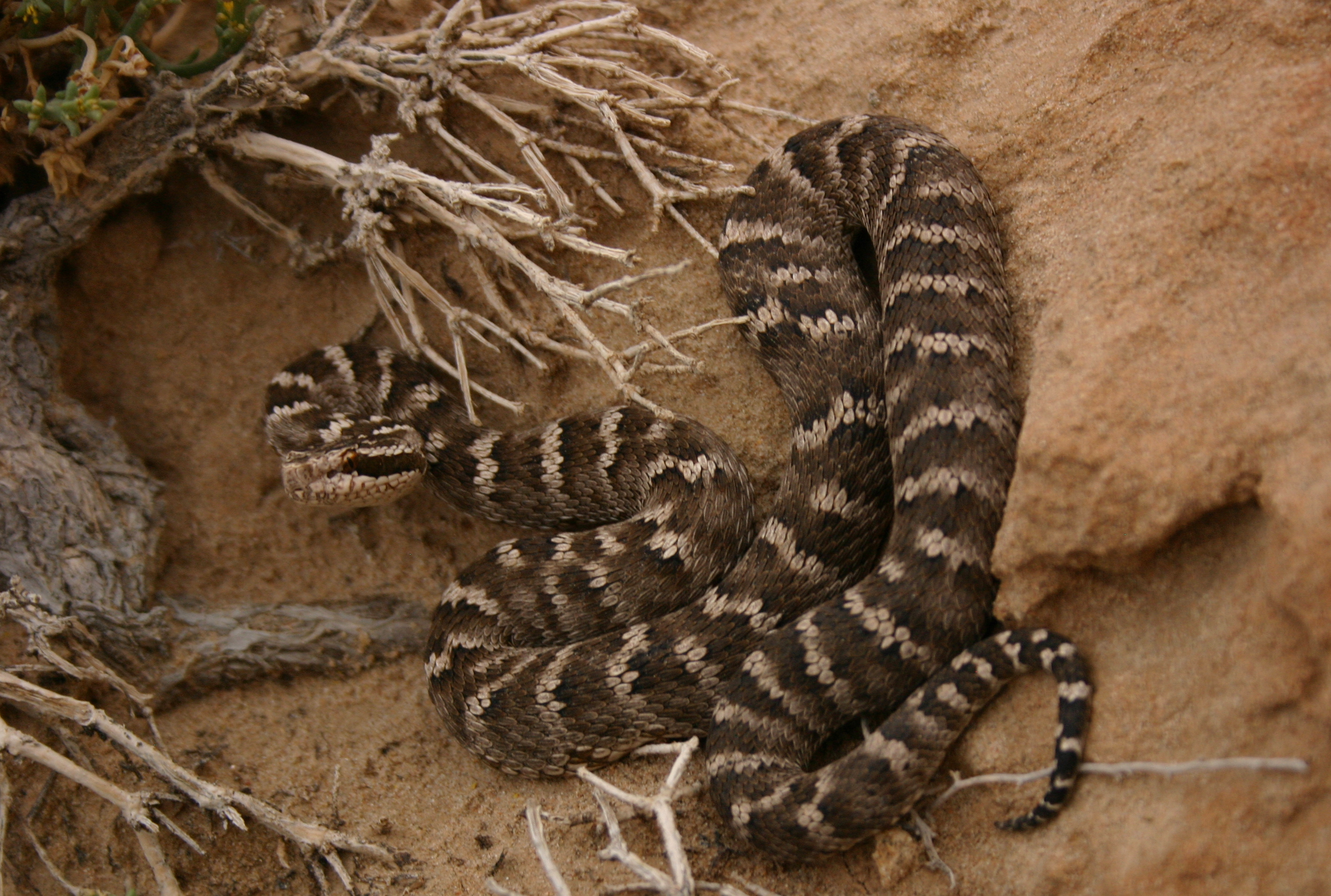 Central Asian Pitviper (Gloydius intermedius), Nemegt, Gobi Desert, Mongolia. Photograph by Nick Longrich.